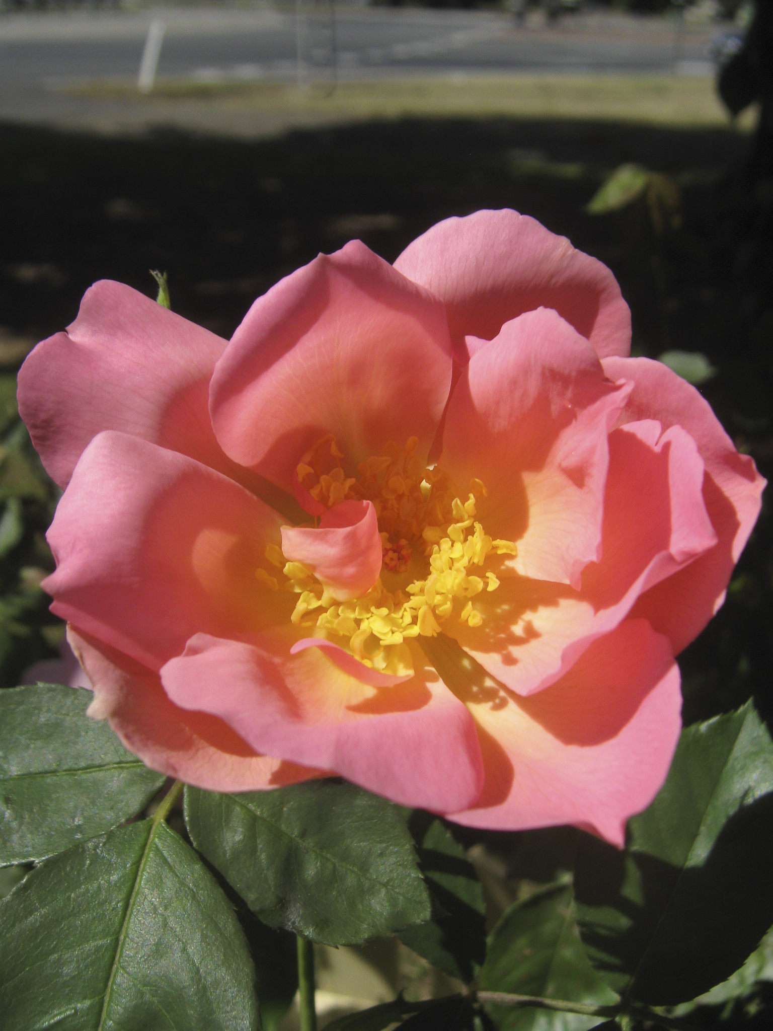 Rose 'Amy Johnson', Hybrid Tea by Alister Clark 1931; photographed in the Alister Clark Memorial Rose Garden, Bulla, Victoria